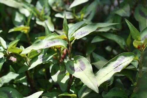 Polygonum odoratum Rau Ram